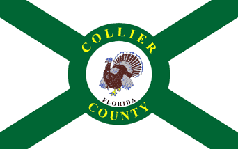 The official flag of Collier County, Florida.